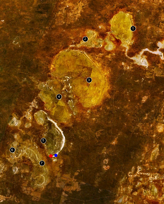 Willandra Lakes with LM1 (red) and LM3 (blue) 1: Lake Mulurulu 2: Willandra Creek 3: Garnpung Lake 4: Lake Leaghur 5: Lake Mungo 6: Lake Arumpo 7: Chibnalwood Lakes LM1: Mungo Lady LM3: Mungo Man